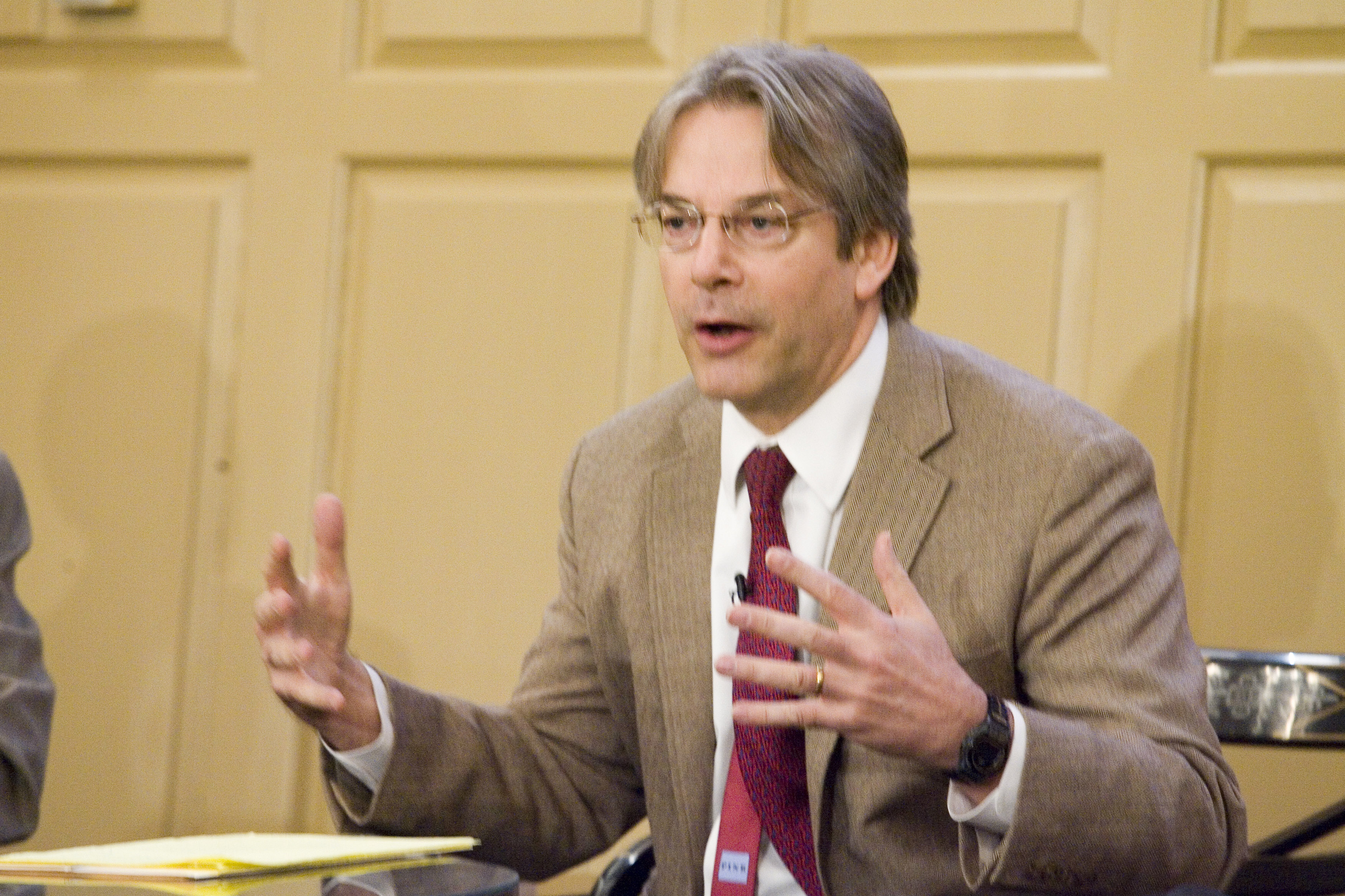 G. John Ikenberry speaks at the Miller Center Colloquium, April 8, 2011.